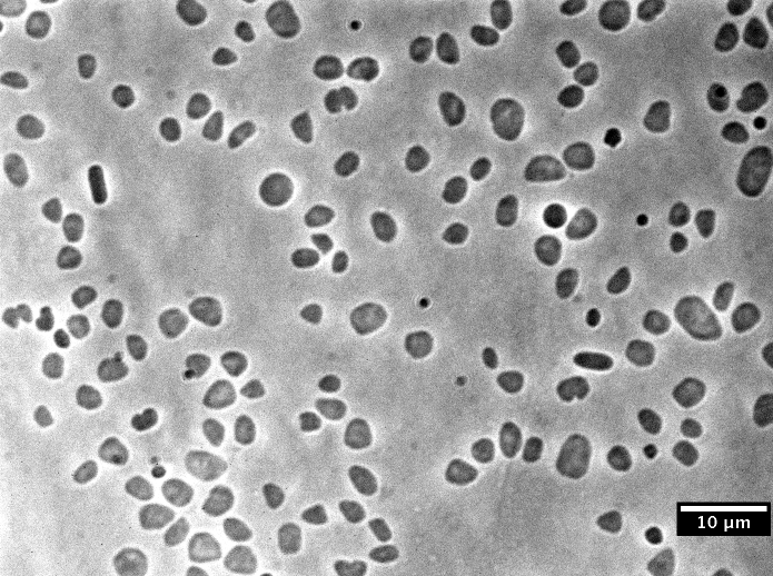 Haloferax volcanii grown in laboratory conditions and imaged using a phase contrast microscope. Cells were mounted on an agar pad.